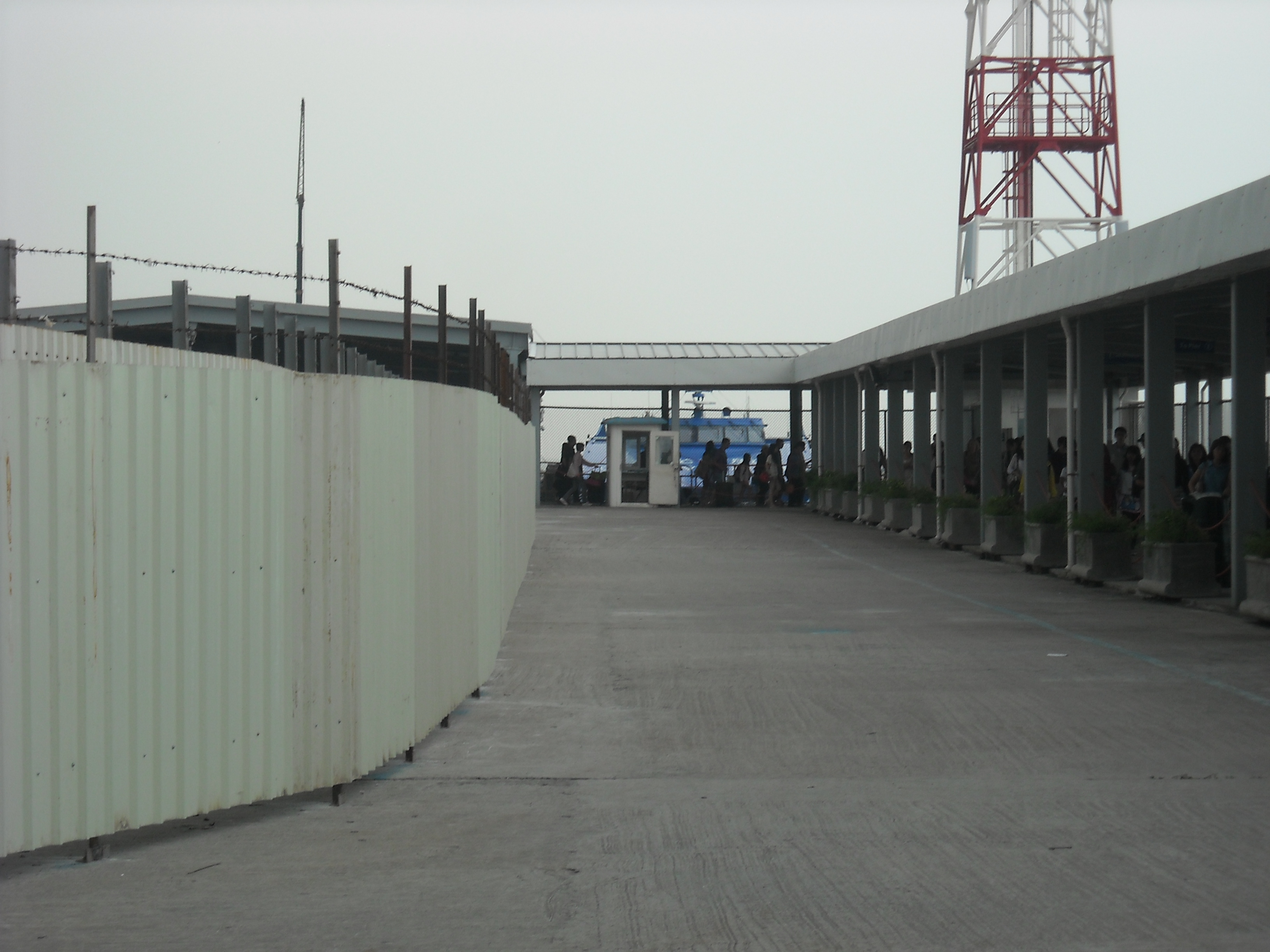 氹仔客運碼頭